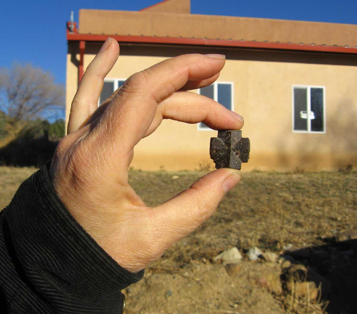 Staurolite cross from near Pilar, New Mexico.